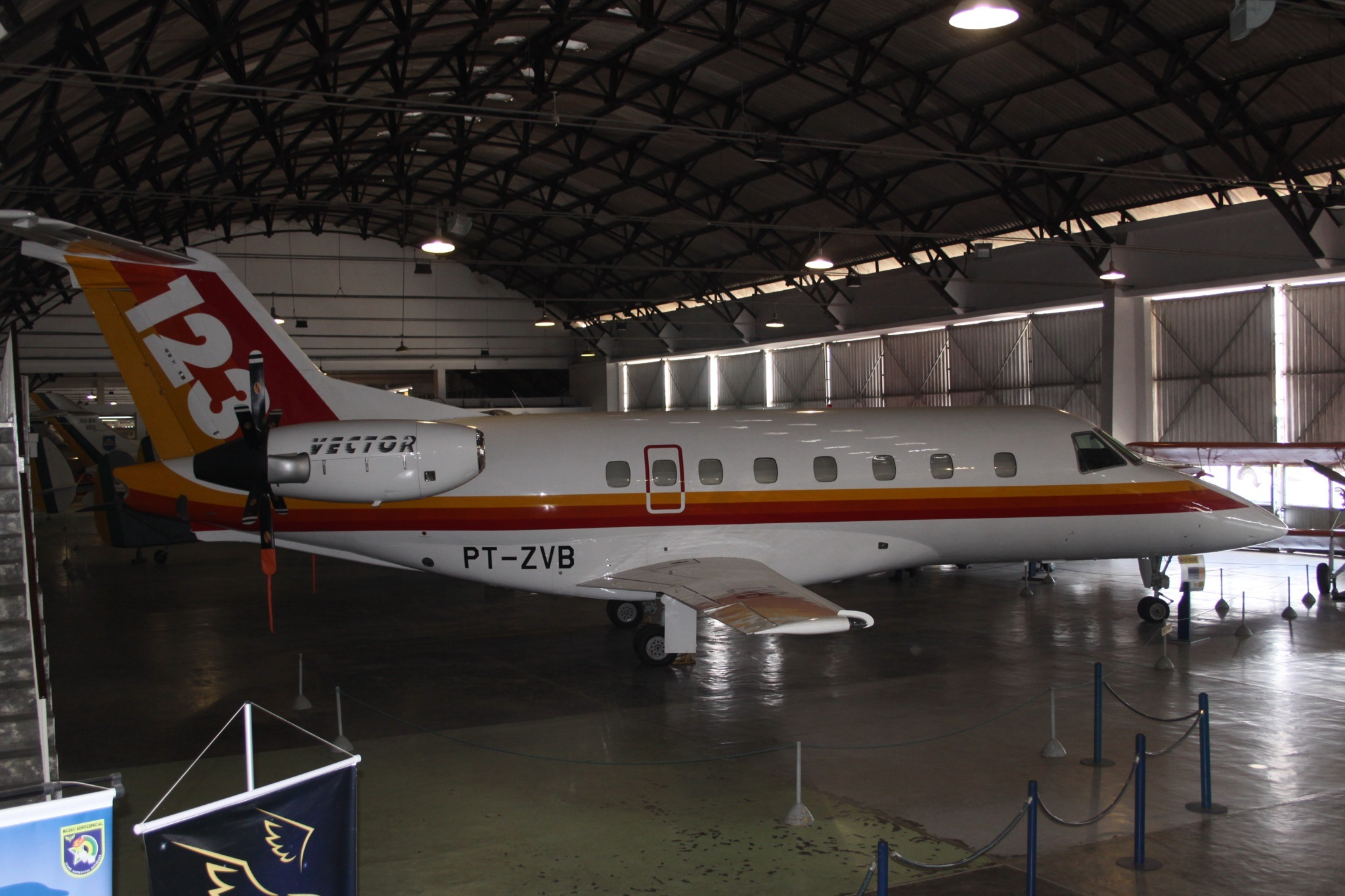 At Campo Dos Afonsos